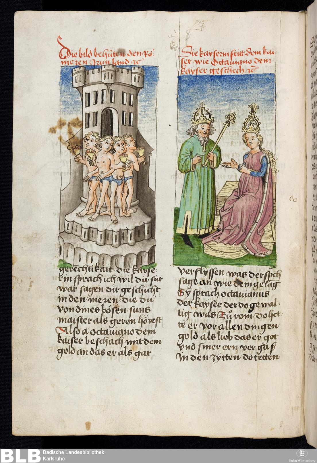 Gesta Romanorum - Donaueschingen 145, a manuscript from Upper Swabia in Germany from circa 1452.